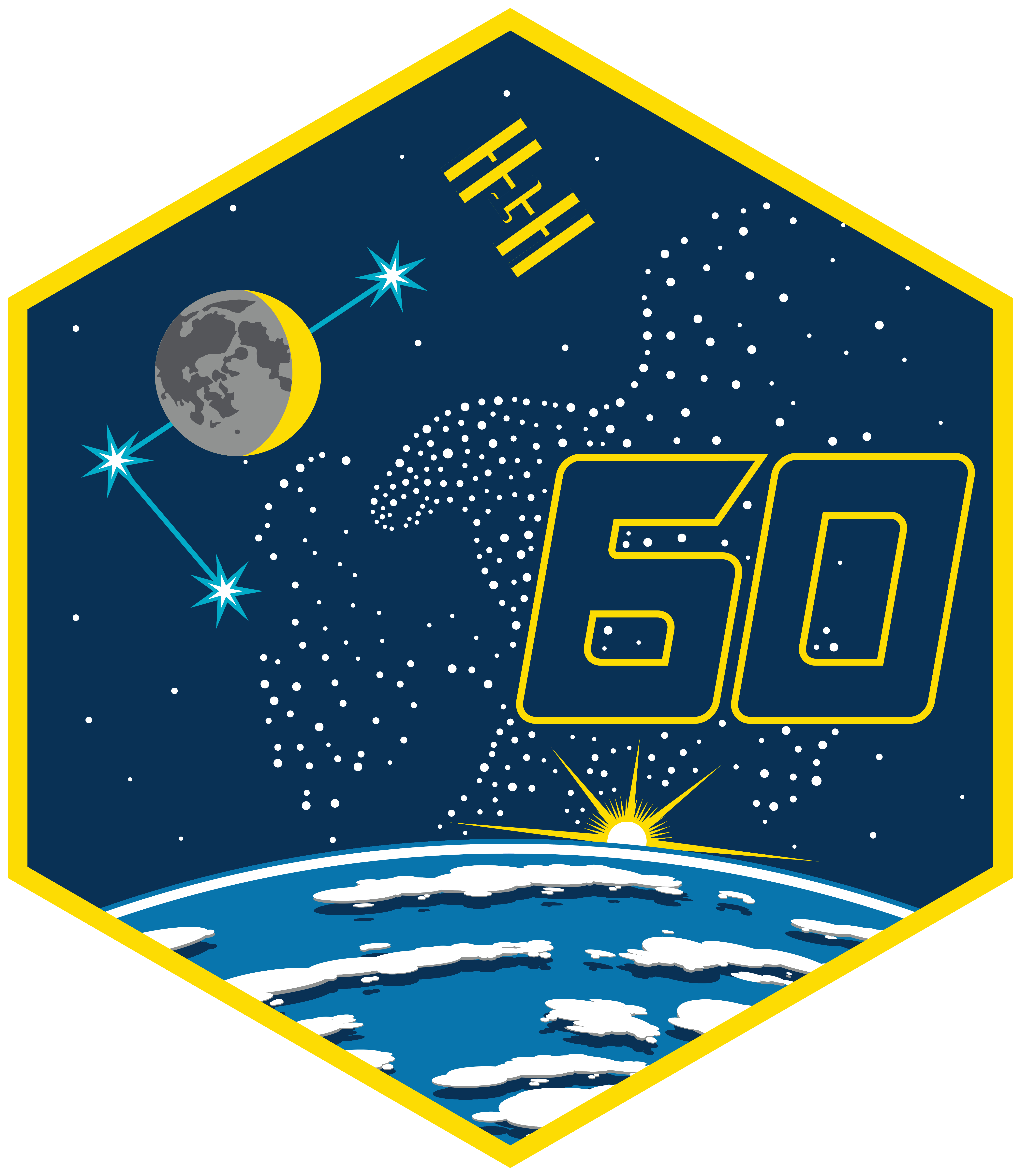 The Expedition 60 crew insignia